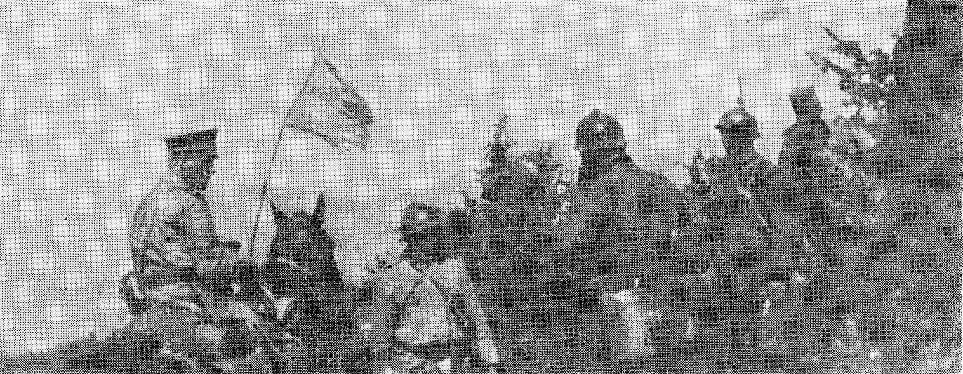 Bulgarian major Ivanov with white flag surrendering to Serbian 7th Danube regiment (29. - 30. September 1918), Macedonian front, location around Kumanovo